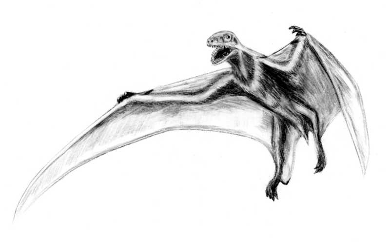 Jeholopterus, pencil drawing Author:User:ArthurWeasley Created: Dec 30, 2006